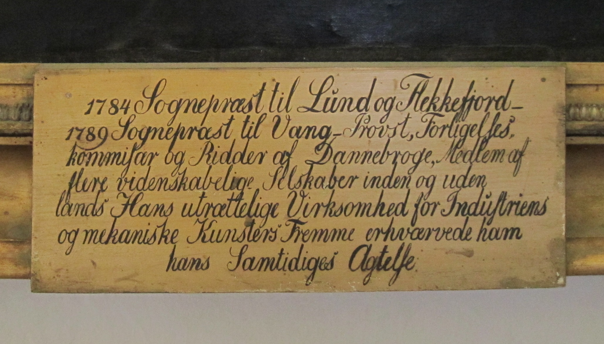 Abraham Pihl, detail of portrait frame, in the church he built